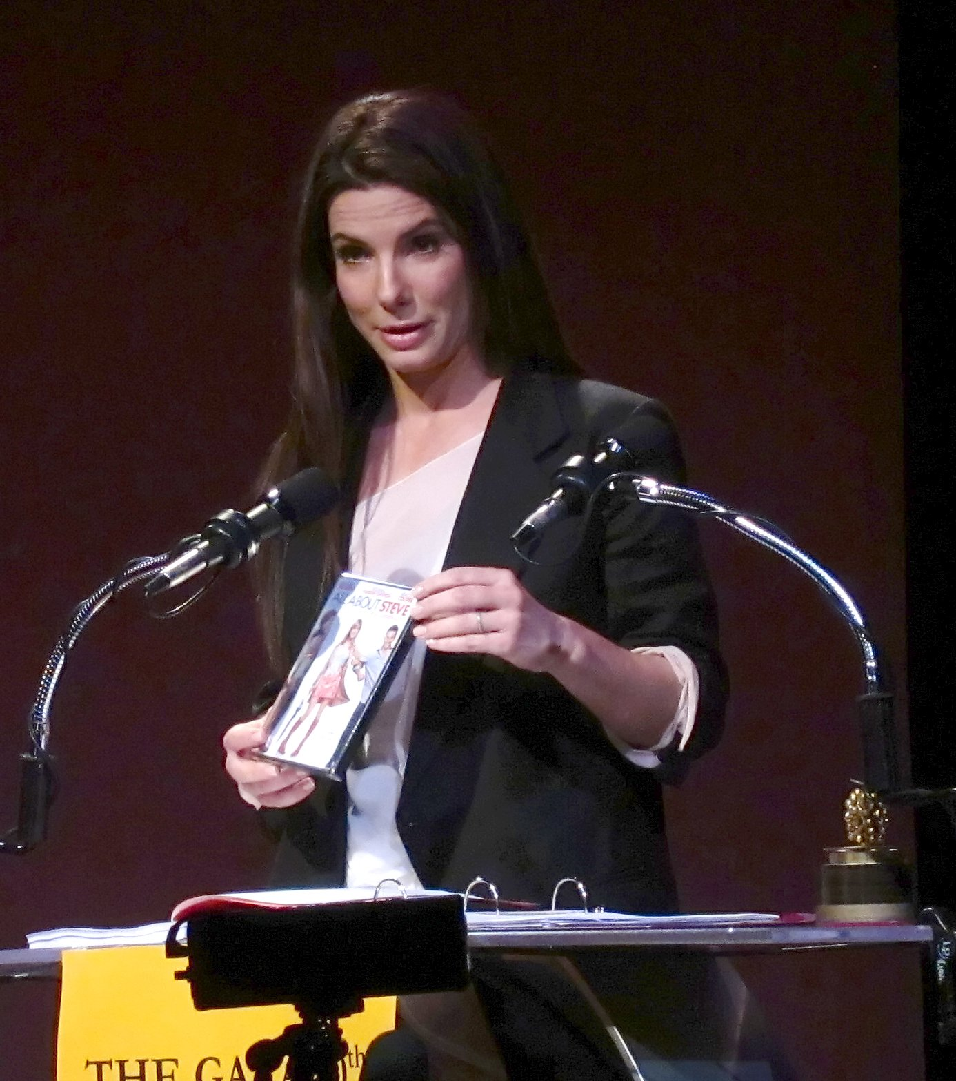 Sandra Bullock accepting her award for "Worst Actress of 2009" for her performance in "All About Steve."